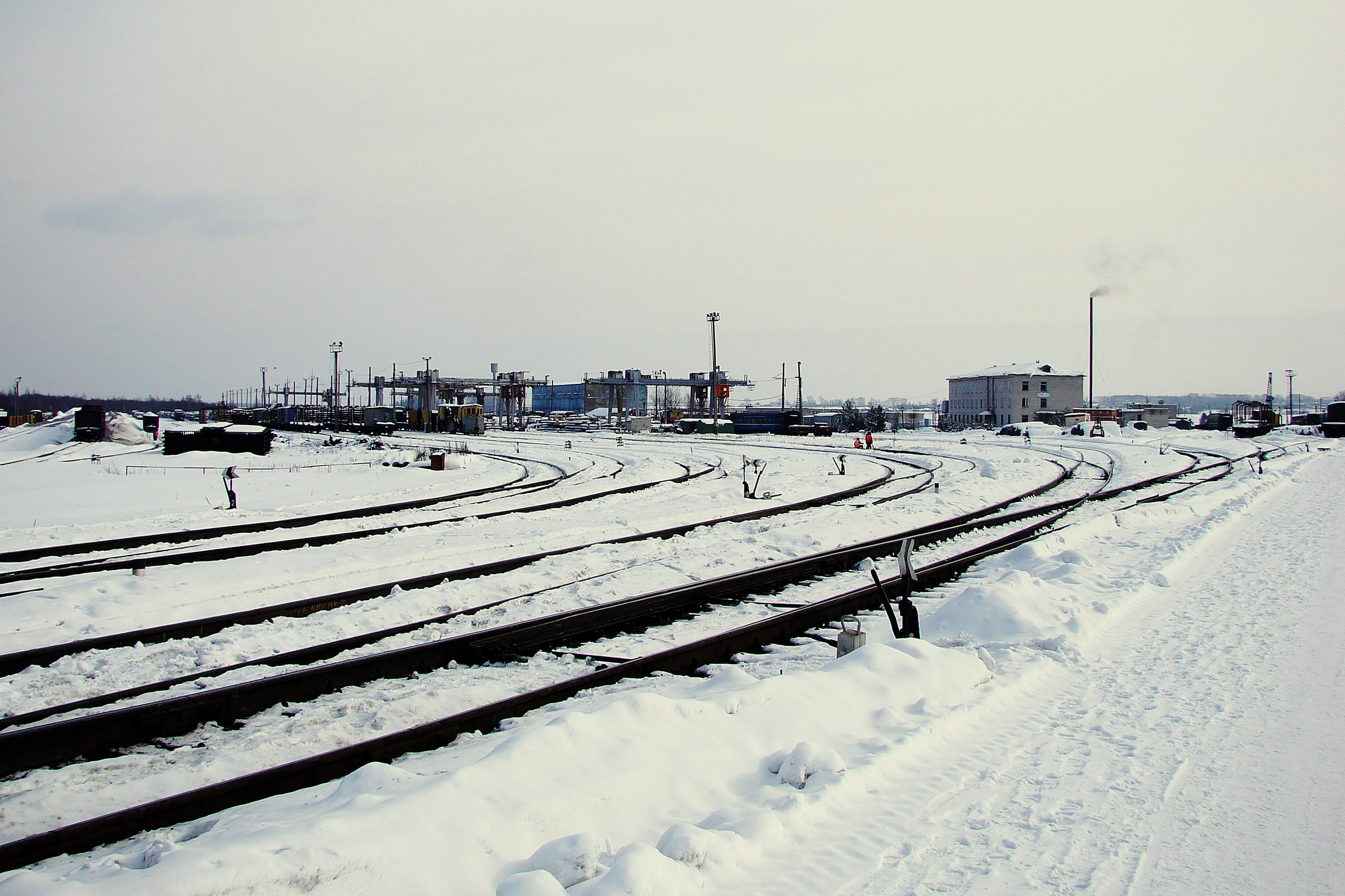 Track Machine Station 113, Losta, Vologda место базирования ПМС-113